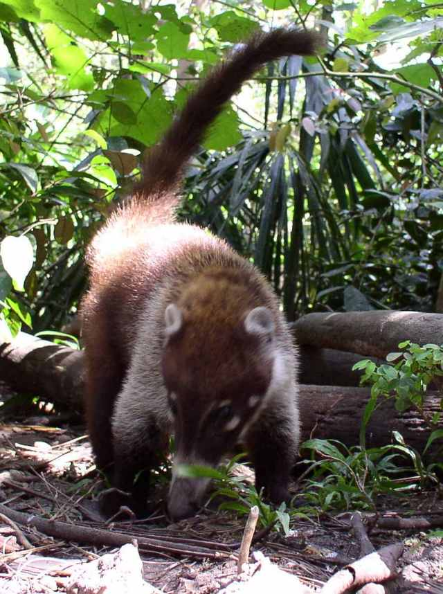 Nasua narica, the White-nosed Coati. --Dante Alighieri